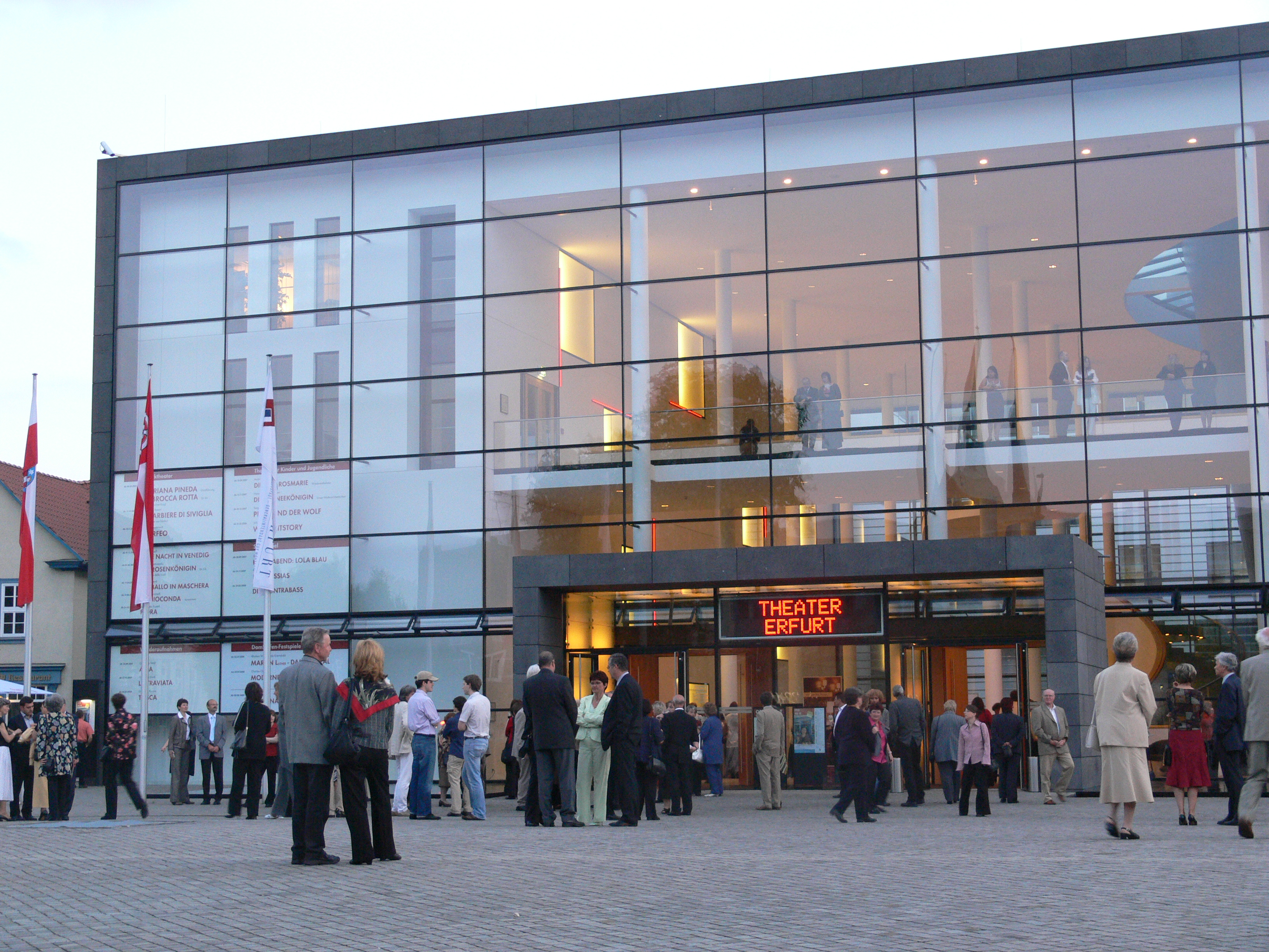 Theater Erfurt, entrance